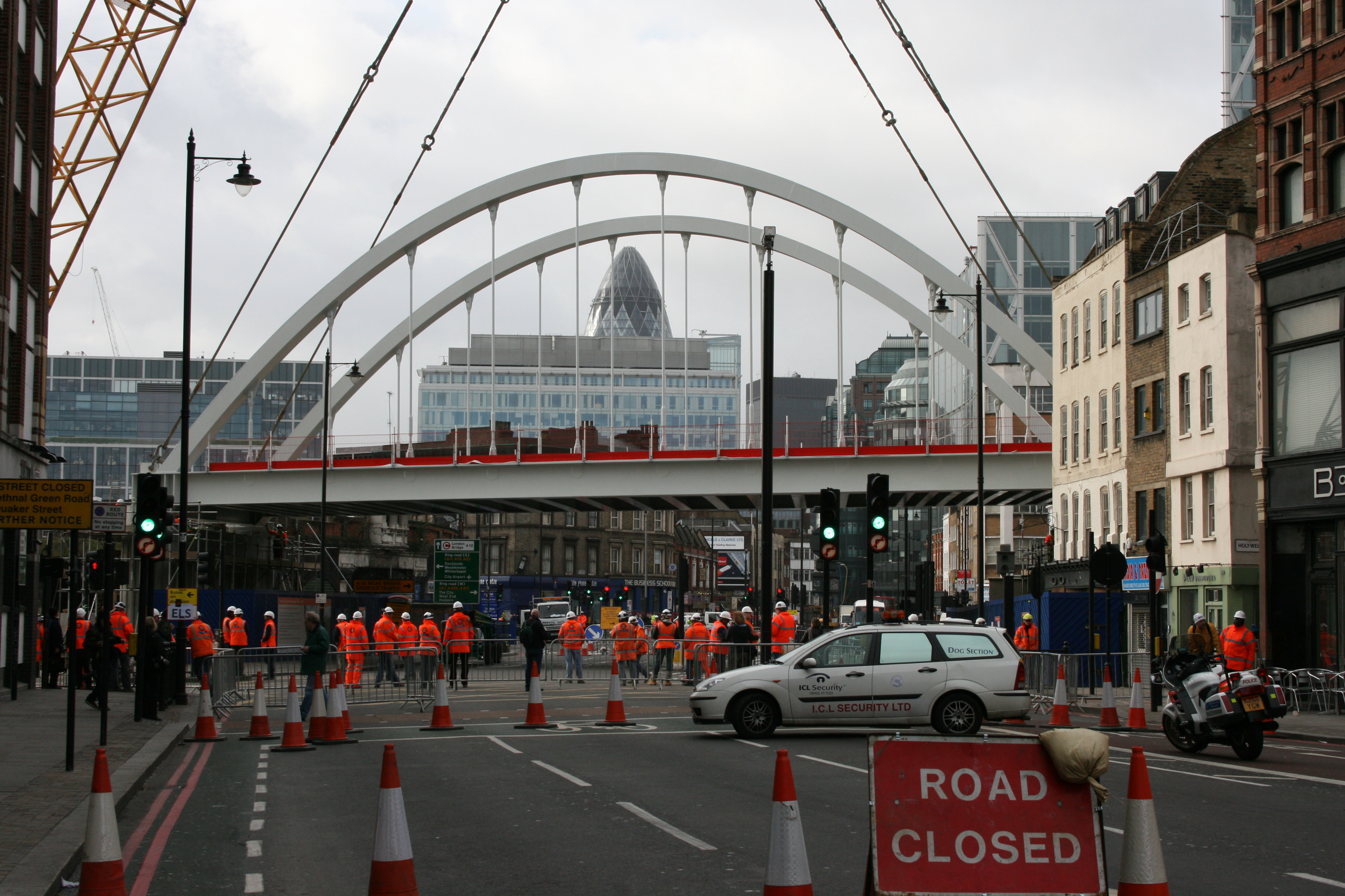 New bridge for the London Overground East London line being lowered into position over Shoreditch High Street, London.